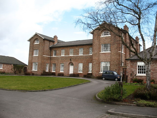 The old workhouse Easingwold's workhouse probably dates from around the time of the Poor Law act of 1834. In later years it became part of Claypenny Hospital and has now been converted into apartments.